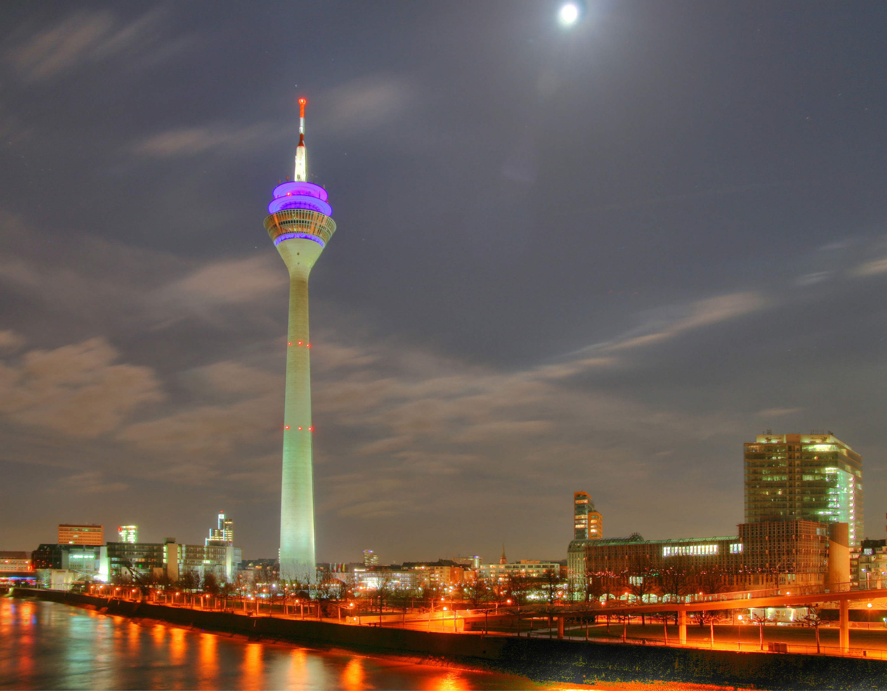 Medienhafen with Rheinturm in Düsseldorf, Germany.